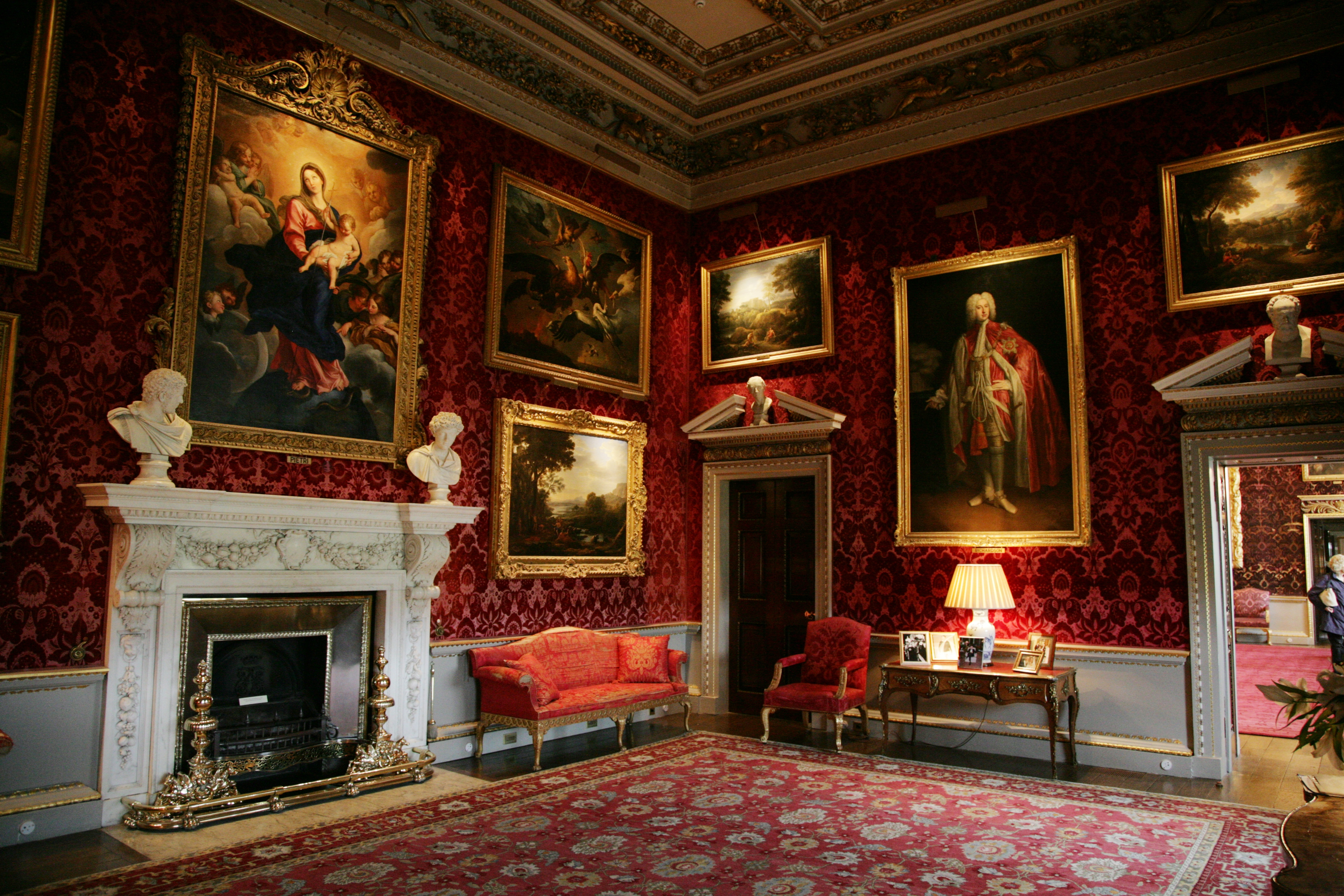 Holkham Hall in Norfolk. The Saloon